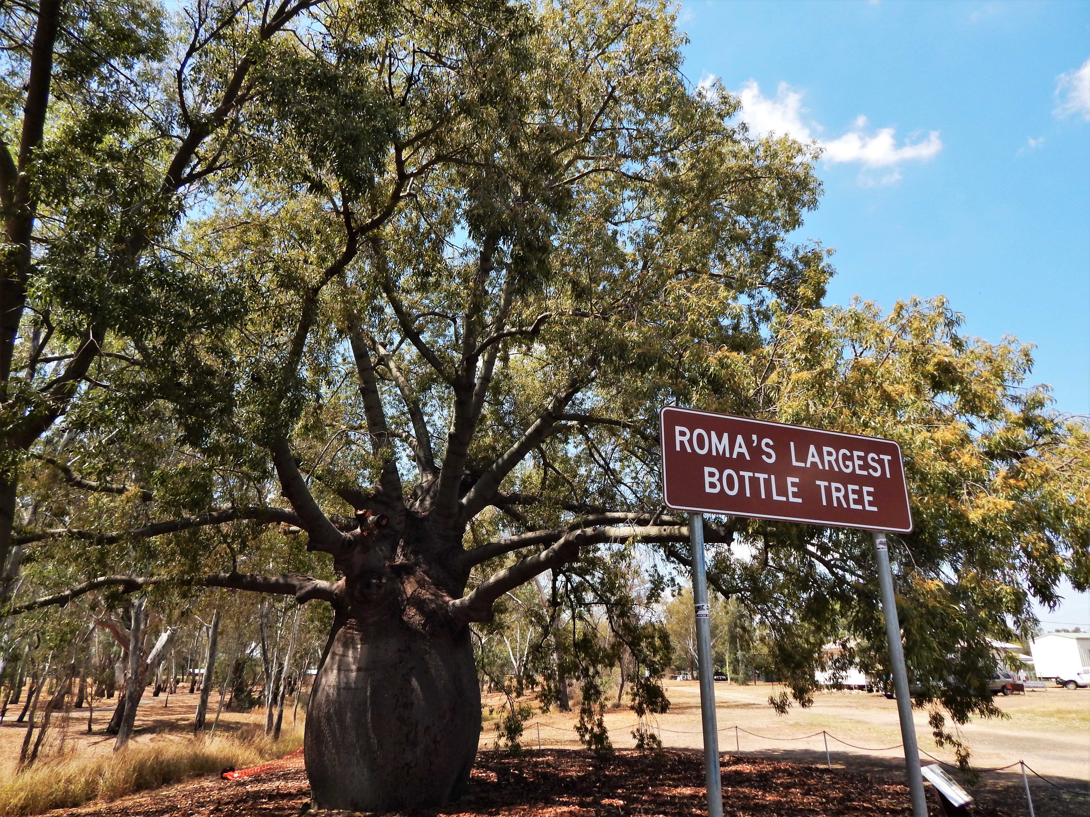 The largest Bottle Tree in Roma, Queensland, with a girth over 9.51 metres. According to signage at the tree, it was transplanted as a mature tree to its current location from a local property in 1927, and is now over 100 years old.